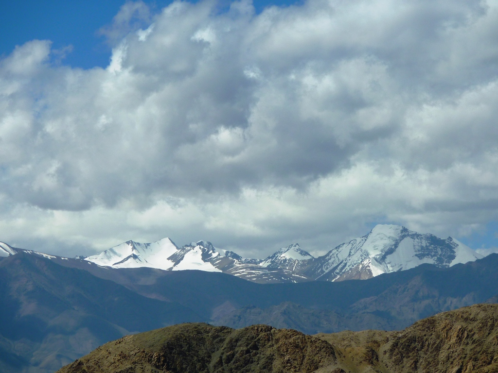 view of mountains from gompa